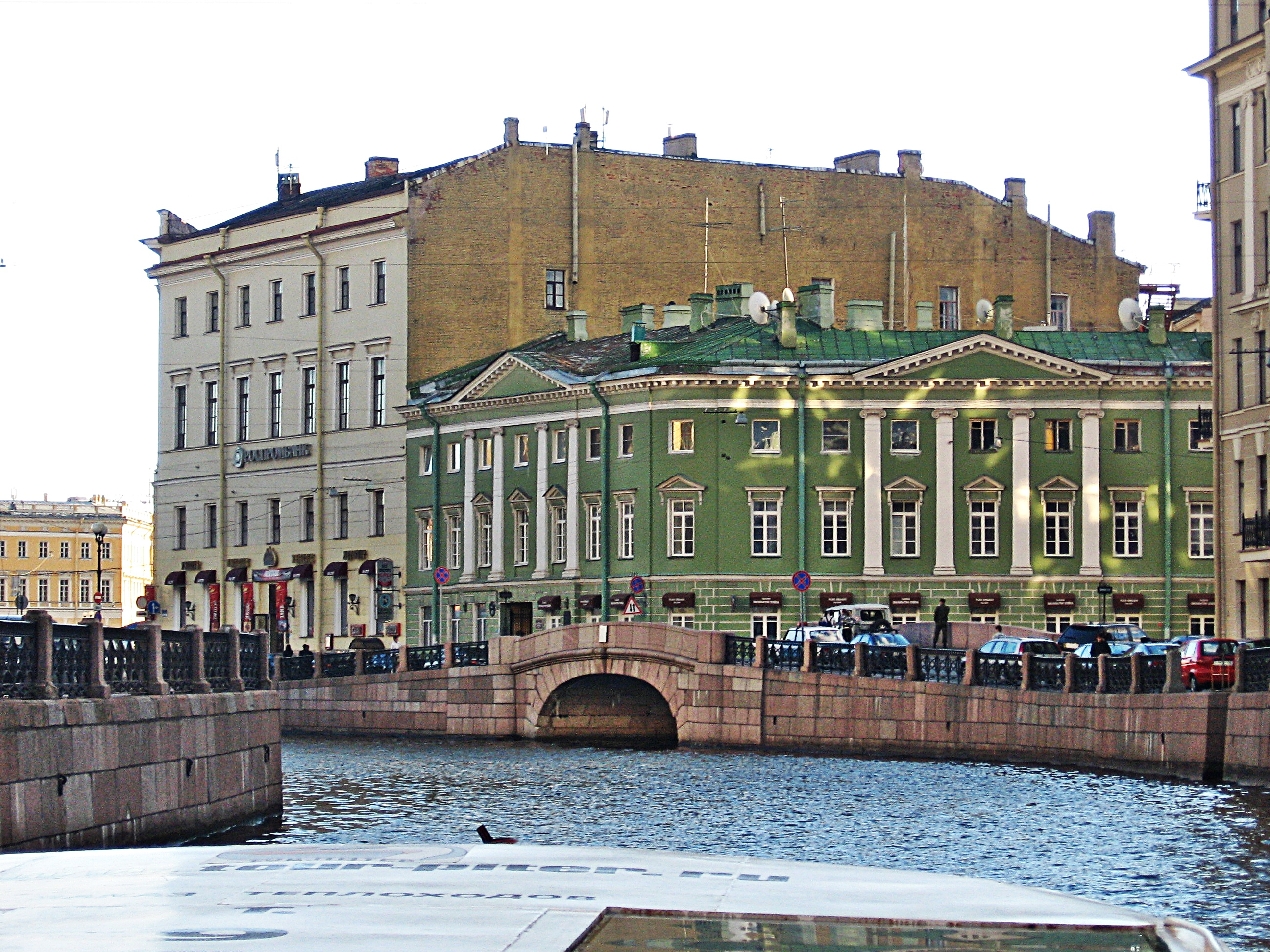 Neva canals